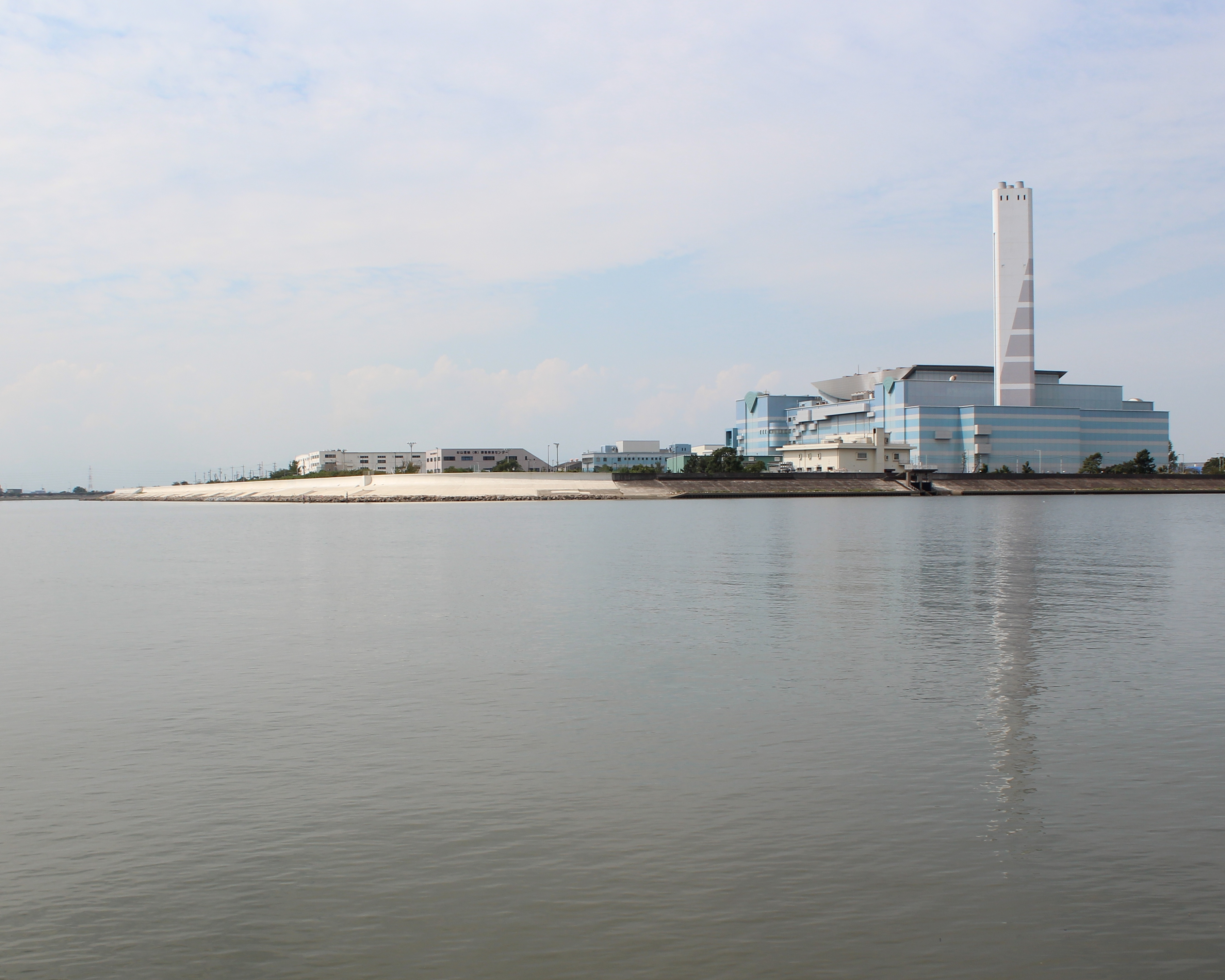 Fujimae-higata and Nanyo-kojyo